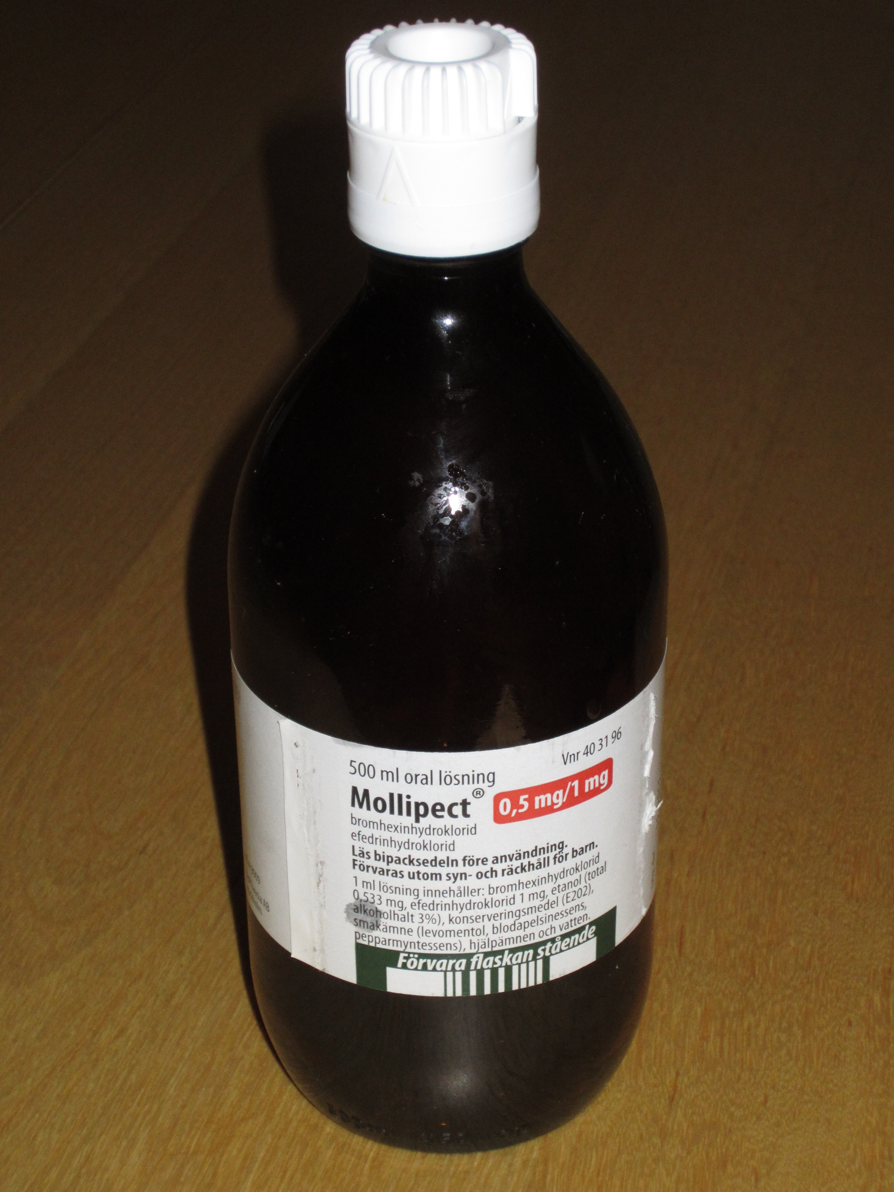 A bottle of cough medicine "Mollipect"